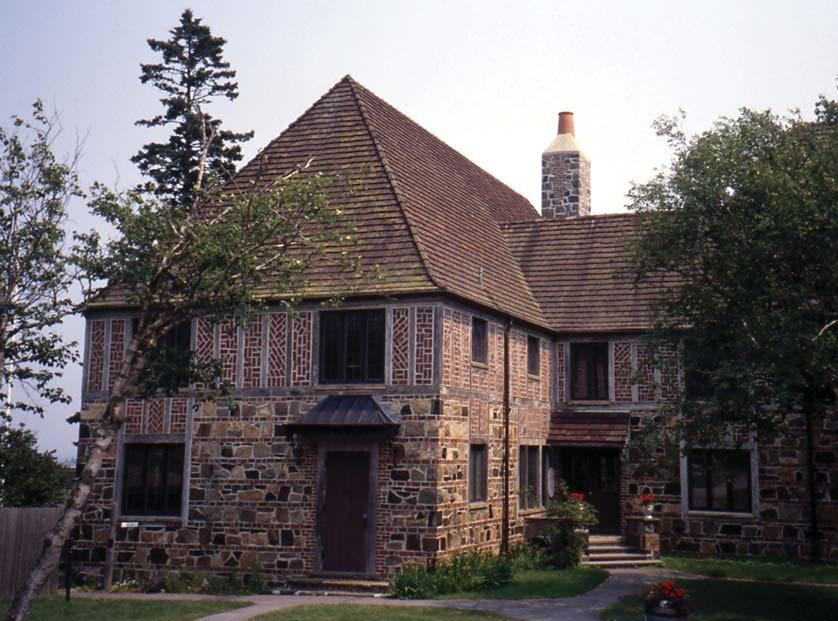 The "Rockefeller Building" at the former Winter Harbor Naval Radio Station. This is part of the Schoodic Peninsula region of Acadia National Park.